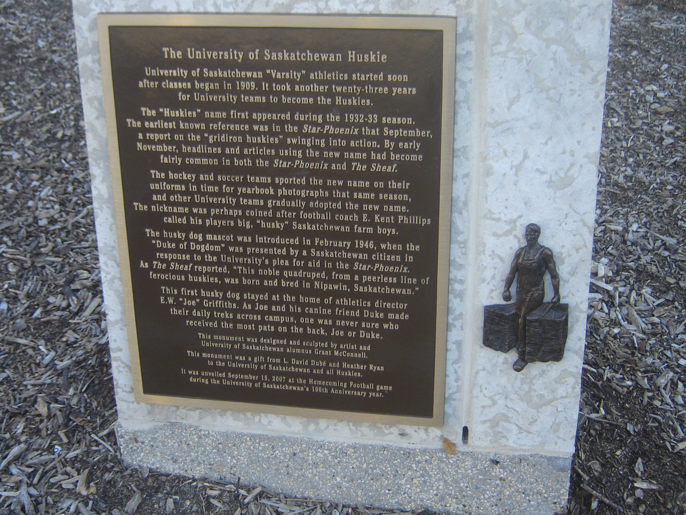 University of Saskatchewan Huskie plaque. Approaching Griffiths Stadium in Saskatoon, Saskatchewan now called PotashCorp Park. Home of the University of Saskatchewan college Husky Football team and track and field race track also. First Husky game in August 2008 against Calgary Dinos on Friday evening, with lighting night games are now possible}